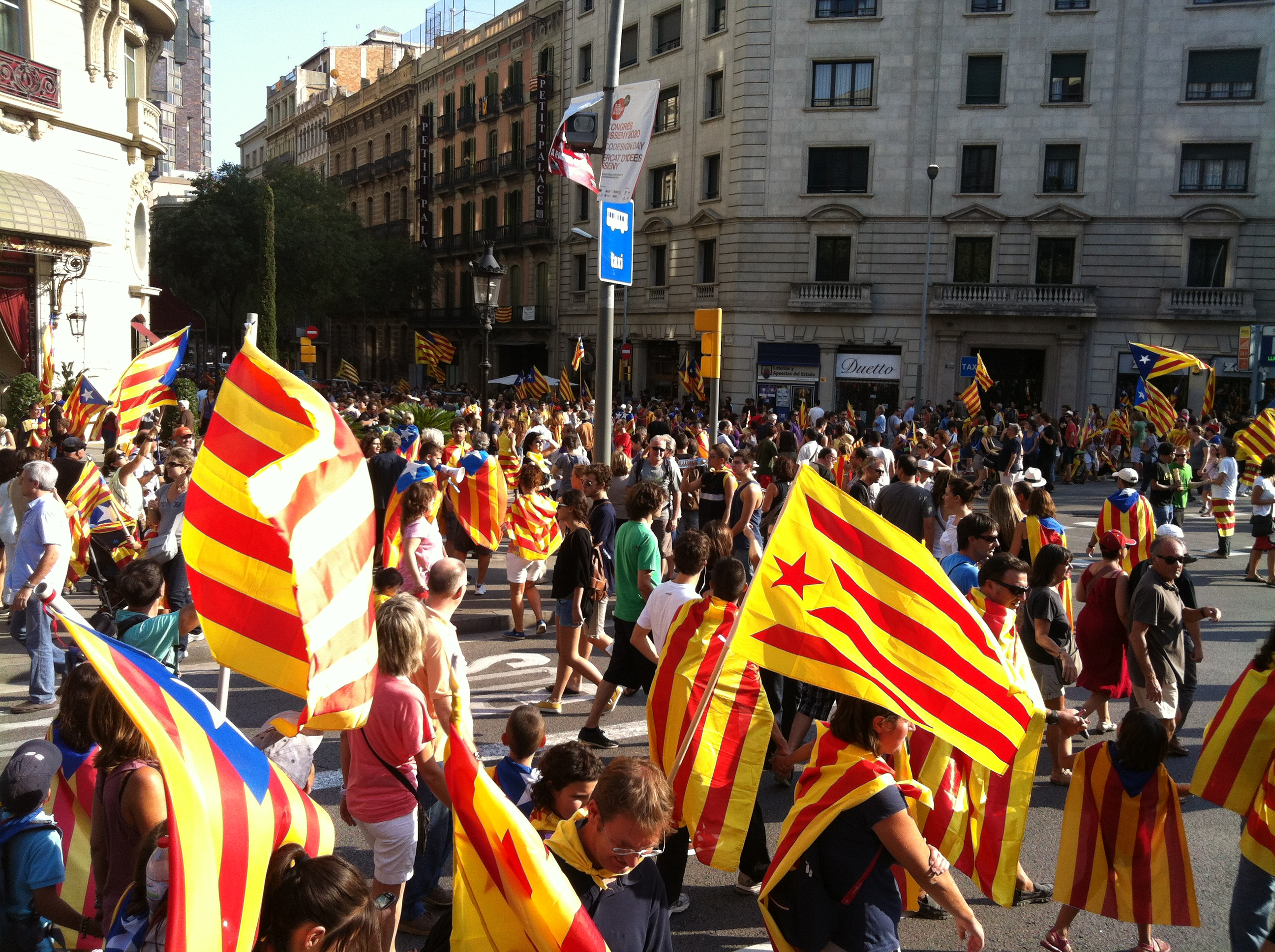 2012 Catalan independence protest on September 11th